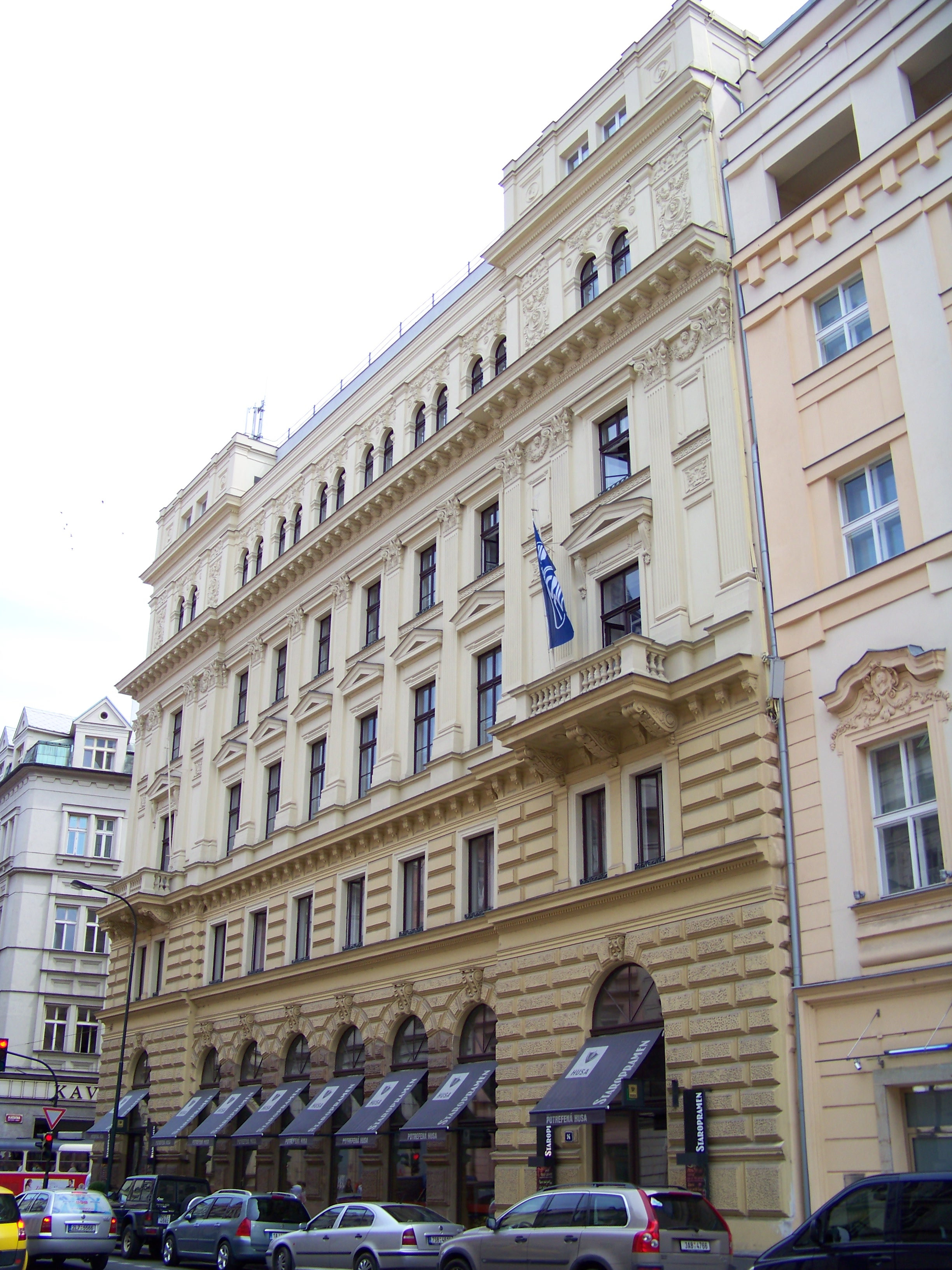 New Town, Prague, the Czech Republic. Hybernská street, a house No 1003.